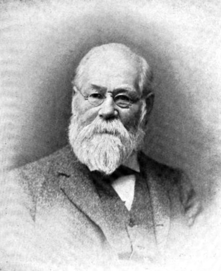 Photograph of Joseph Tomlinson, British-American bridge and civil engineer, circa 1900